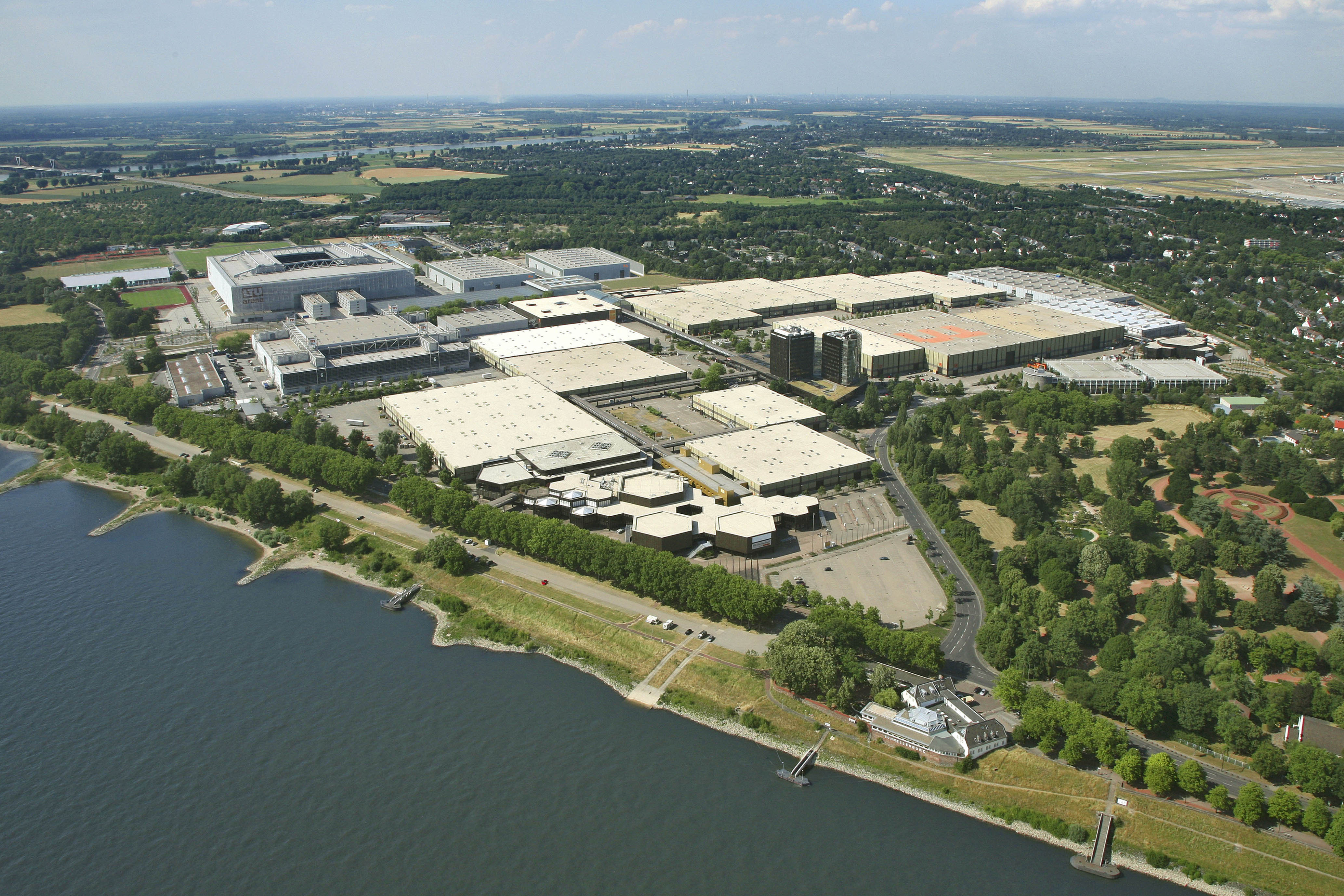 Fairground of Messe Düsseldorf GmbH